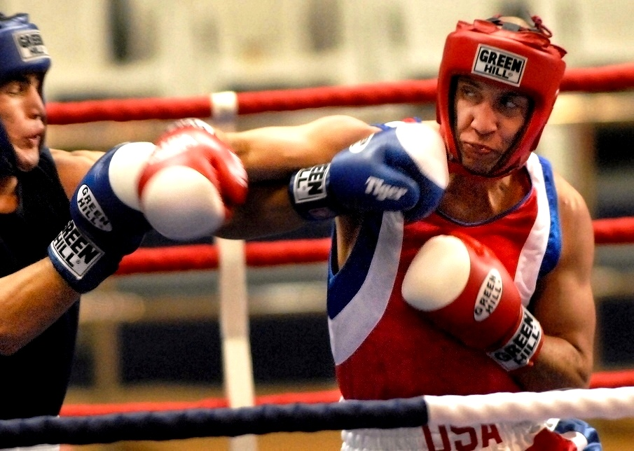 U.S. Army Capt. Boyd Melson, right, throws a right hook while boxing against H. Rawshan, from Uzbekistan, during the Conseil Internationale du Sport Militaires Military World Games at Gachibowli Stadium in Hyderabad, India, Oct. 15, 2007. The games is the largest international, military, Olympic-style event in the world, with 103 countries and more than 5,000 athletes scheduled to compete. (U.S. Air Force photo by Tech. Sgt. Cecilio Ricardo)